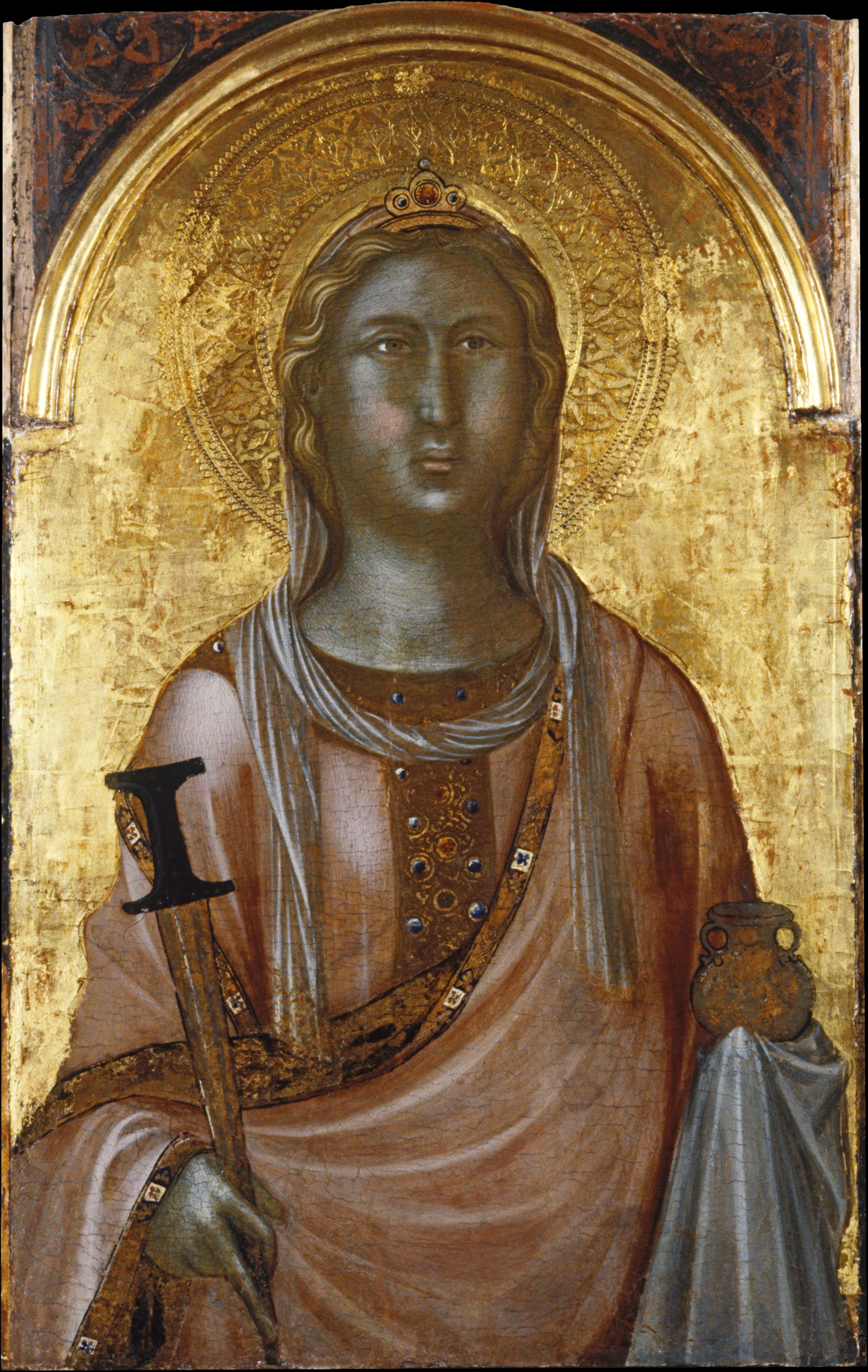 Following her conversion to Christianity, Lucy (d. 304) was subjected to a series of tortures, all of which she miraculously survived. Here, the saint holds the dagger with which she was ultimately executed and the lamp, her attribute. This painting originally was on the left side of an altarpiece that consisted of a central image of the Virgin and Child flanked by saints. The ornate details and delicate gold surfaces enlivened by punch-marks are characteristic of the refined style of mid 14th-century Sienese painting. For more information on this piece, please see Zeri catalogue number 22, pp. 37-39.